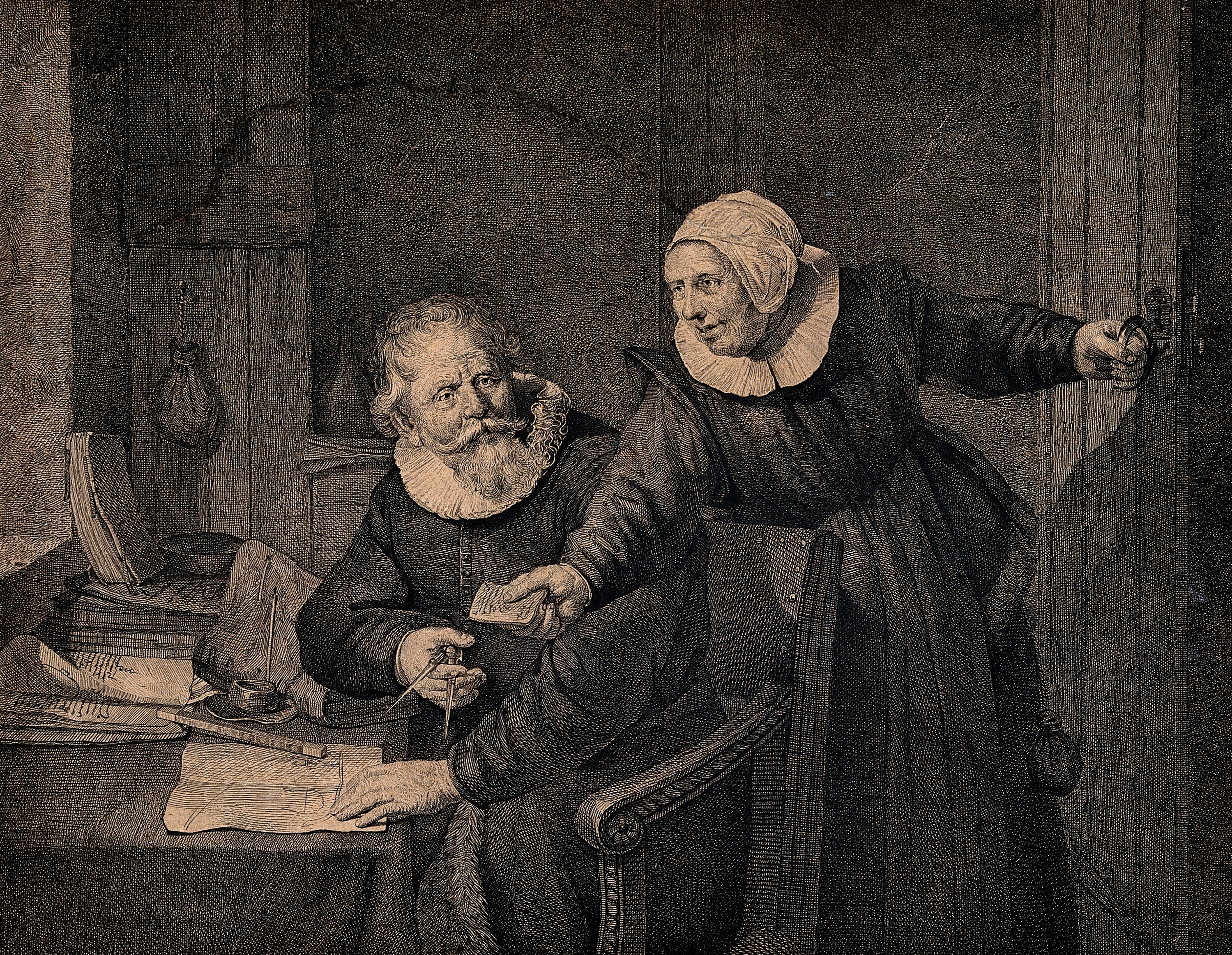 The shipbuilder and his wife: he working at his plans, she brandishing a household account. Engraving, 1800, after Rembrandt van Ryn. Iconographic Collections Keywords: Rembrandt van Ryn